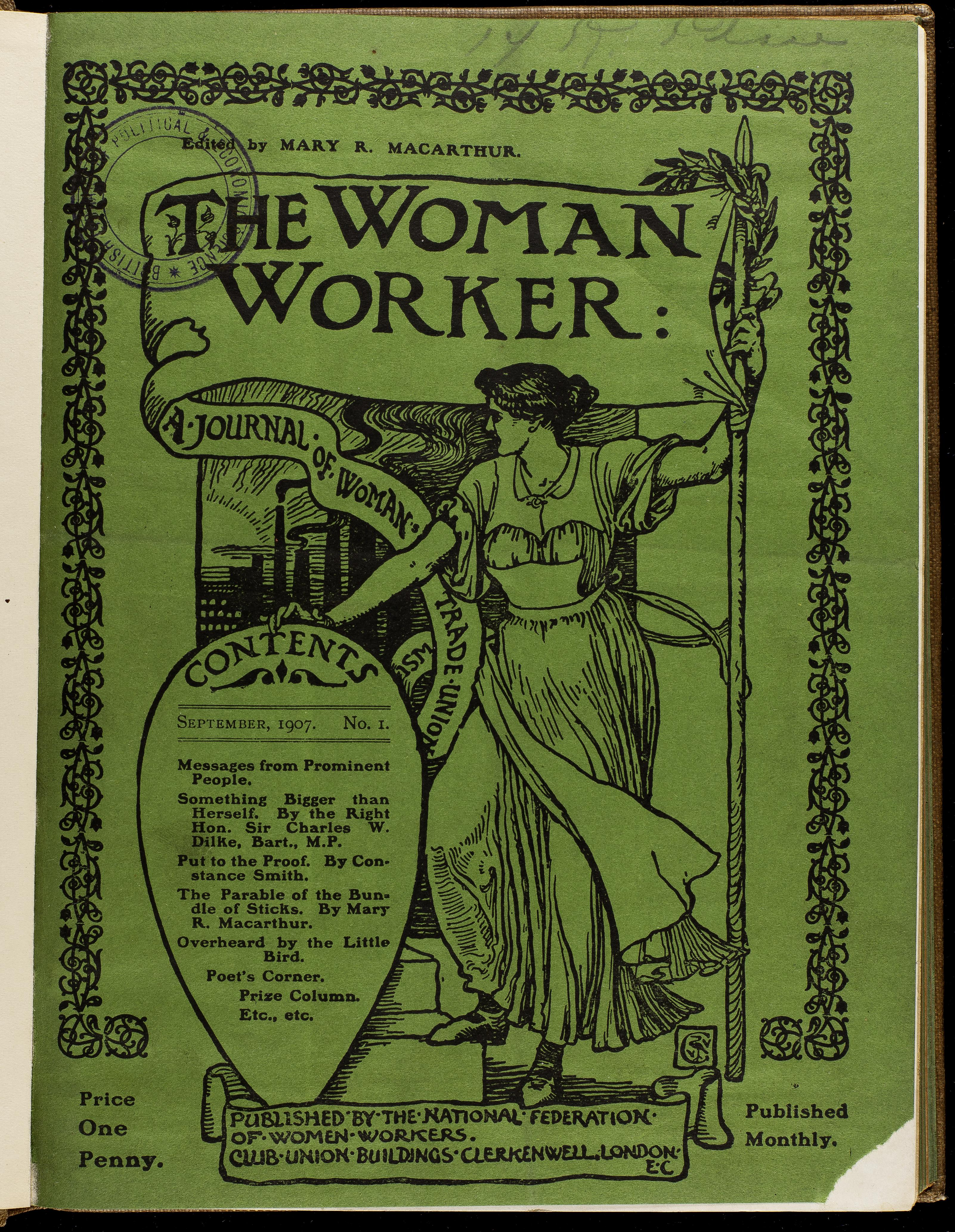 DS833